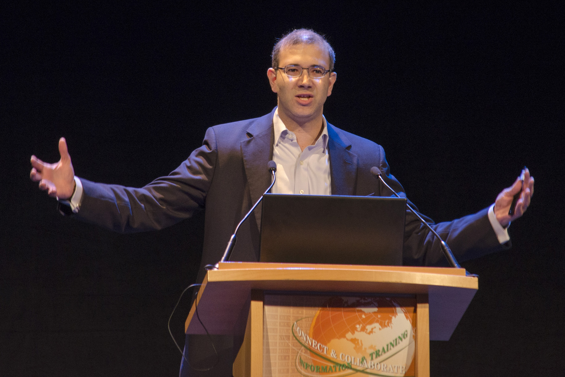 Steven E. Brenner speaking at the Intelligent Systems for Molecular Biology conference in 2015